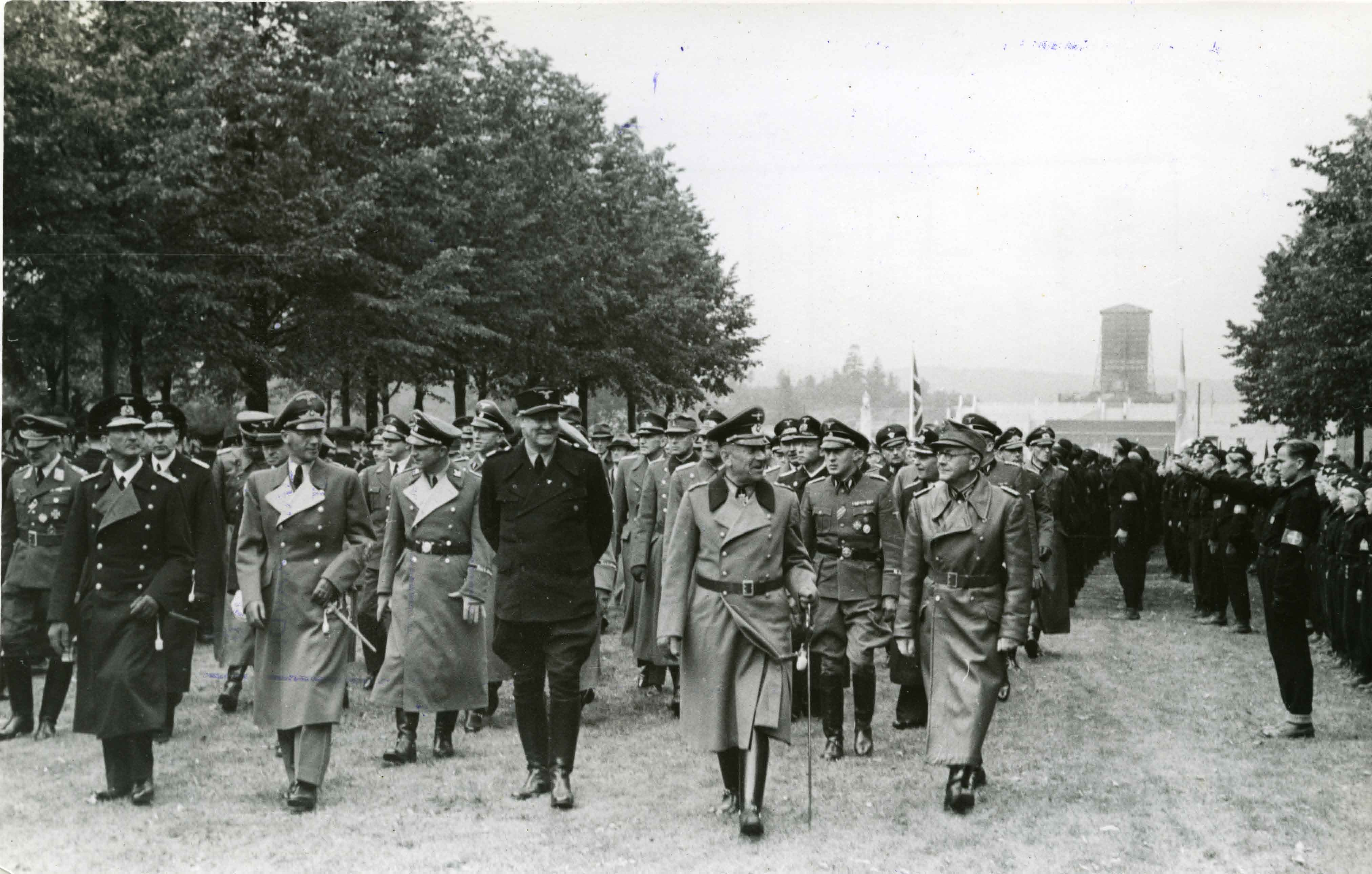 Det 8. riksmøte fant sted 25.-27.9.1942, fotograf: Presse- og propagandaav. Billed- og filmktr. RA/PA-0781/Fa/0001/0009 1144 NS holdt til sammen 7 partilandsmøter i 30-årene, men i løpet av perioden 1940-1945 ble det holdt bare ett riksmøte, 8. riksmøte i Oslo 26.-27.09.1942. Anslagsvis 10 000 deltagere fra hele landet samlet seg i hovedstaden til dette partimøtet. Det rikholdige programmet omfattet blant annet store parader der både arbeidstjeneste, kvinner, SS, NSUF, ung- og småhird defilerte, og i Frognerparken ble det holdt en stor minnemarkering for de falne. Avslutningsarrangementet fant sted på Bislet stadion. NS (the Norwegian Fascist party) held a total of seven party congresses in the 30s, but during the period 1940-1945 there was just one national meeting, the 8th national meeting in Oslo on September 26th and 27th 1942. An estimated 10,000 participants from across the country gathered in the capital for this party meeting. The extensive program included the major parades in which both labor service, women, SS, NSUF, and young party members paraded. There was a large memorial ceremony for the fallen in the Vigeland Park. The closing ceremony took place at Bislett Stadium.